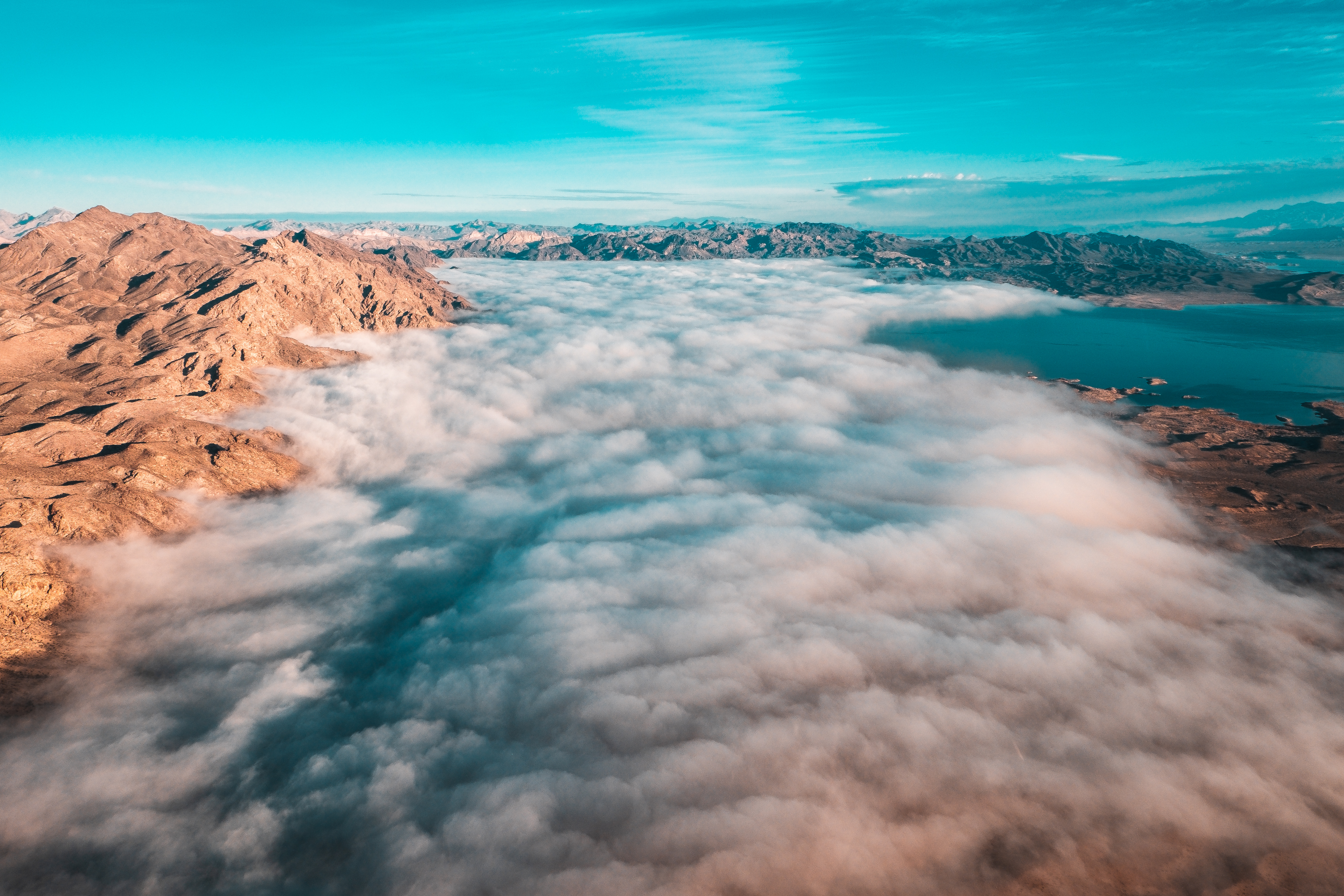 Aerial view of Lake Mead in Clark, Nevada